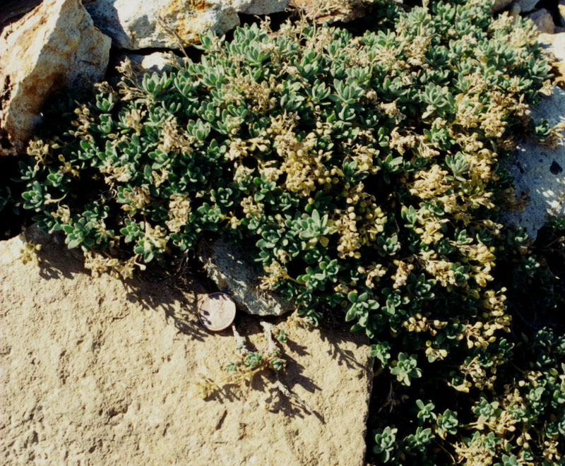 Draba ramulosa USFS photo